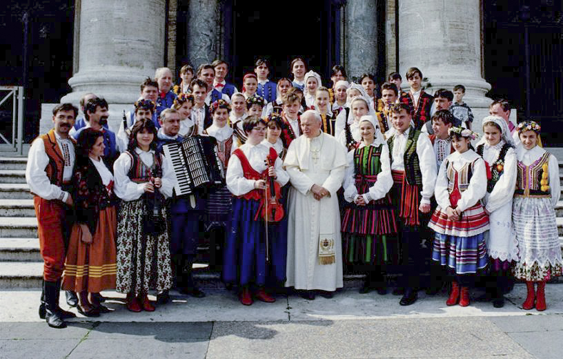 Folk Group "SKOPANIE" in Vatican 1995